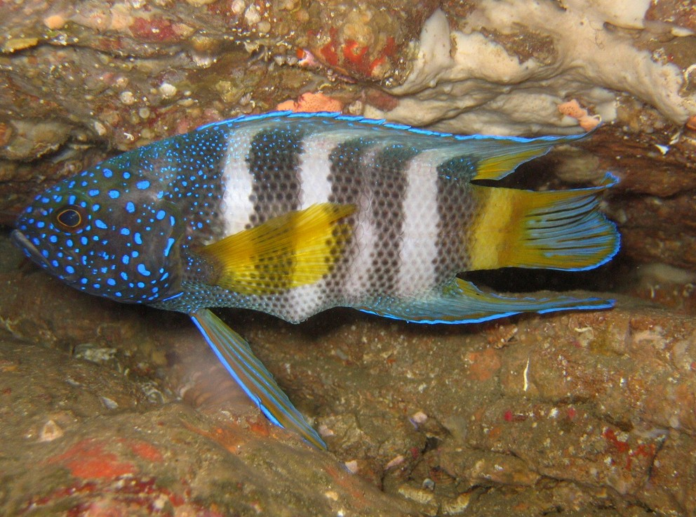 Eastern Blue Devil (Paraplesiops bleekeri). Looking Glass, Port Stephens, NSW